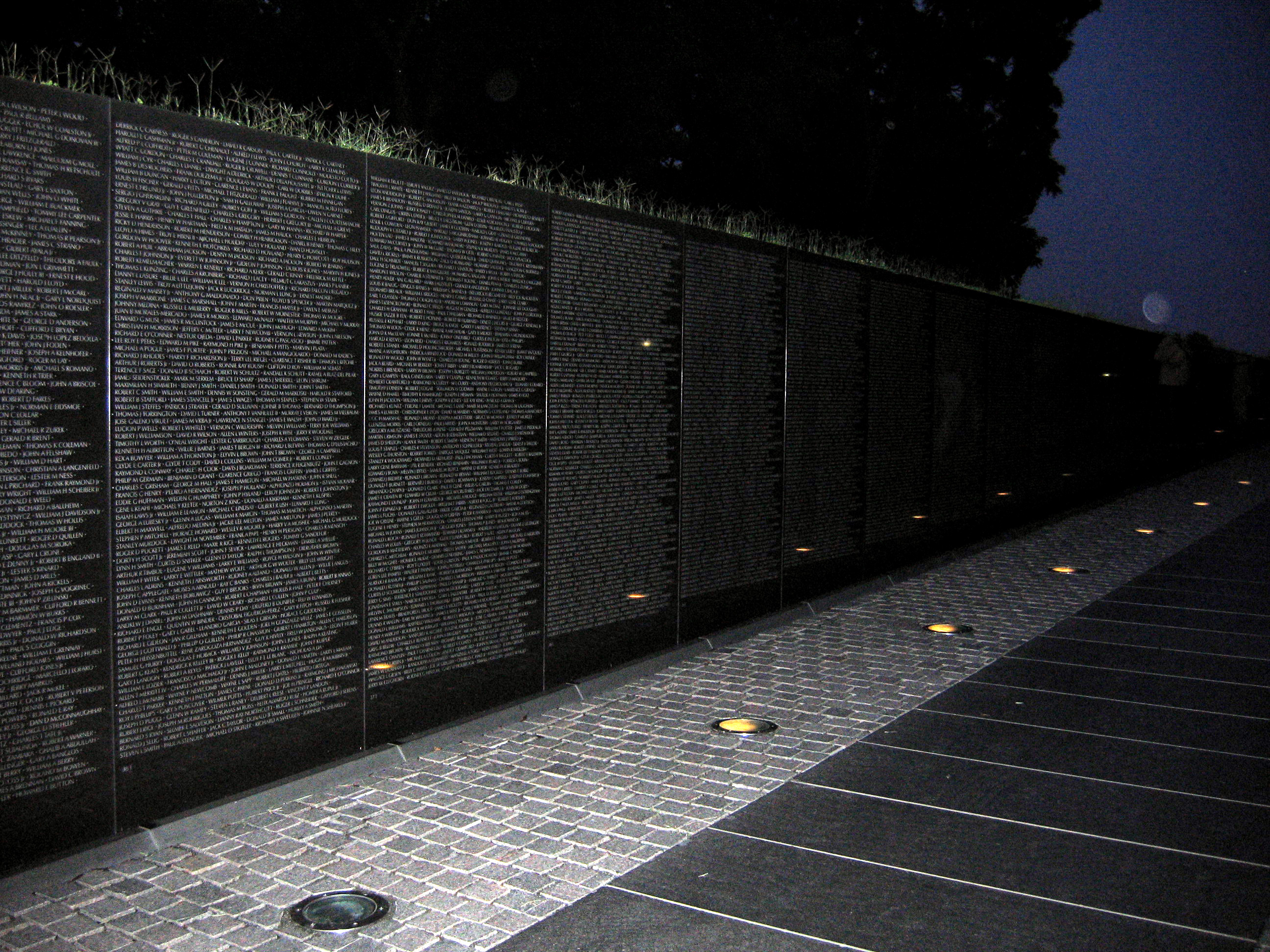 View of a portion of the Vietnam Veterans Memorial in Washington, D.C.